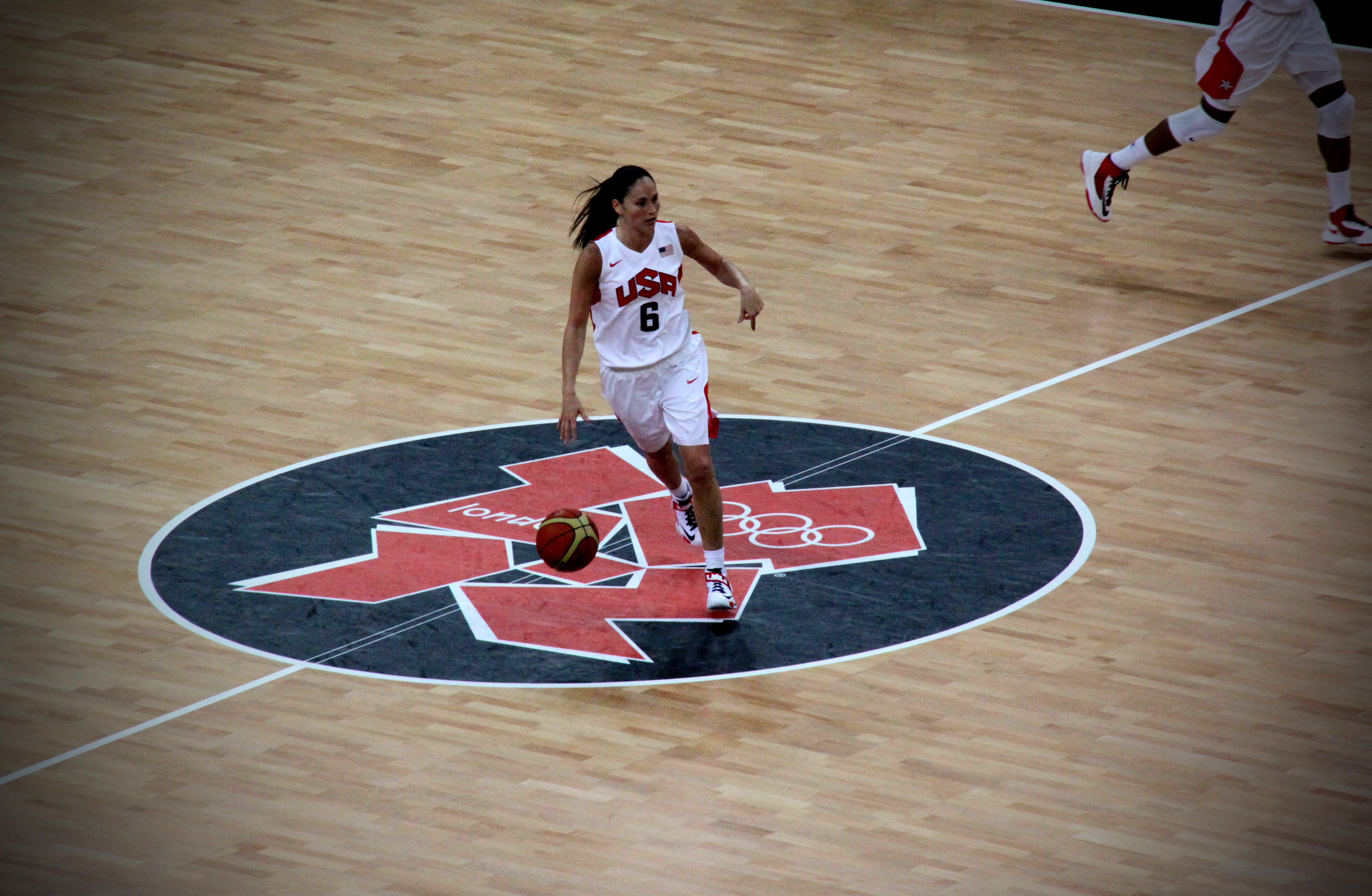 Sue Bird at the 2012 Summer Olympics in London